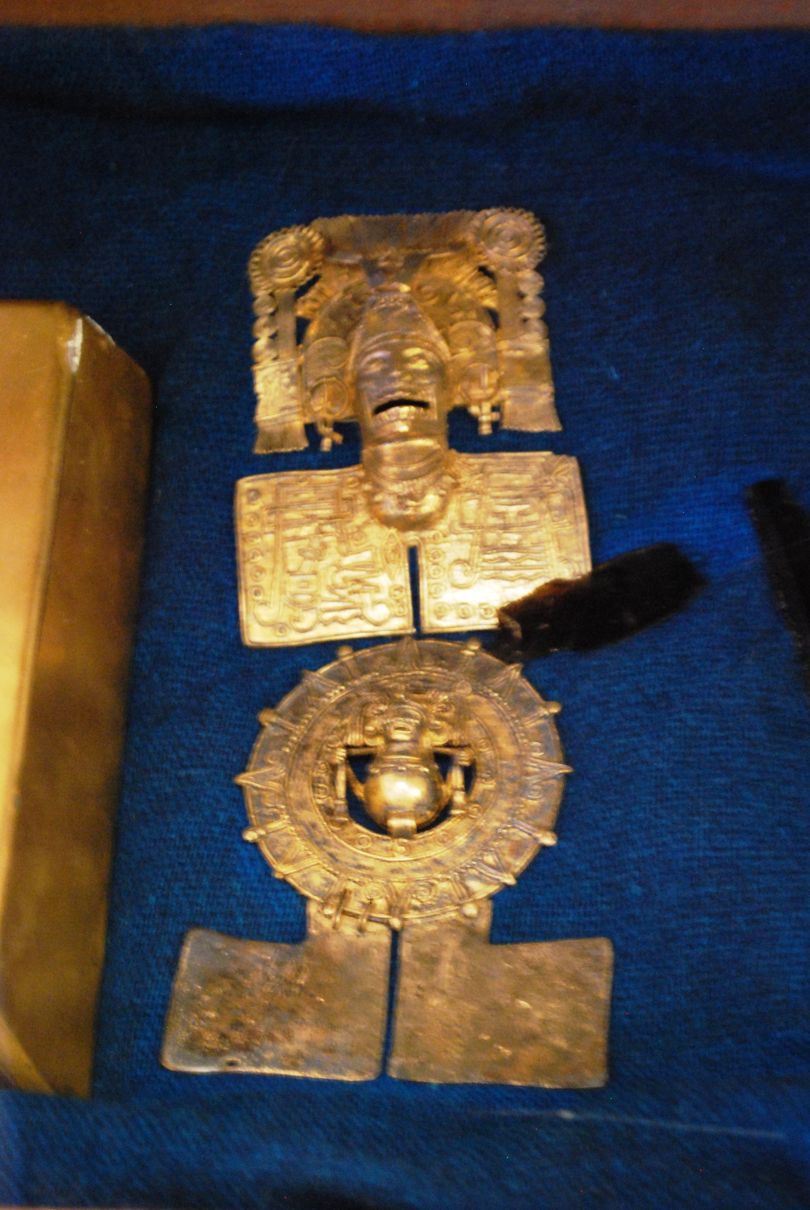 Aztec gold ornament 16th century at the Palace of Cortes, Cuernavaca, Mexico